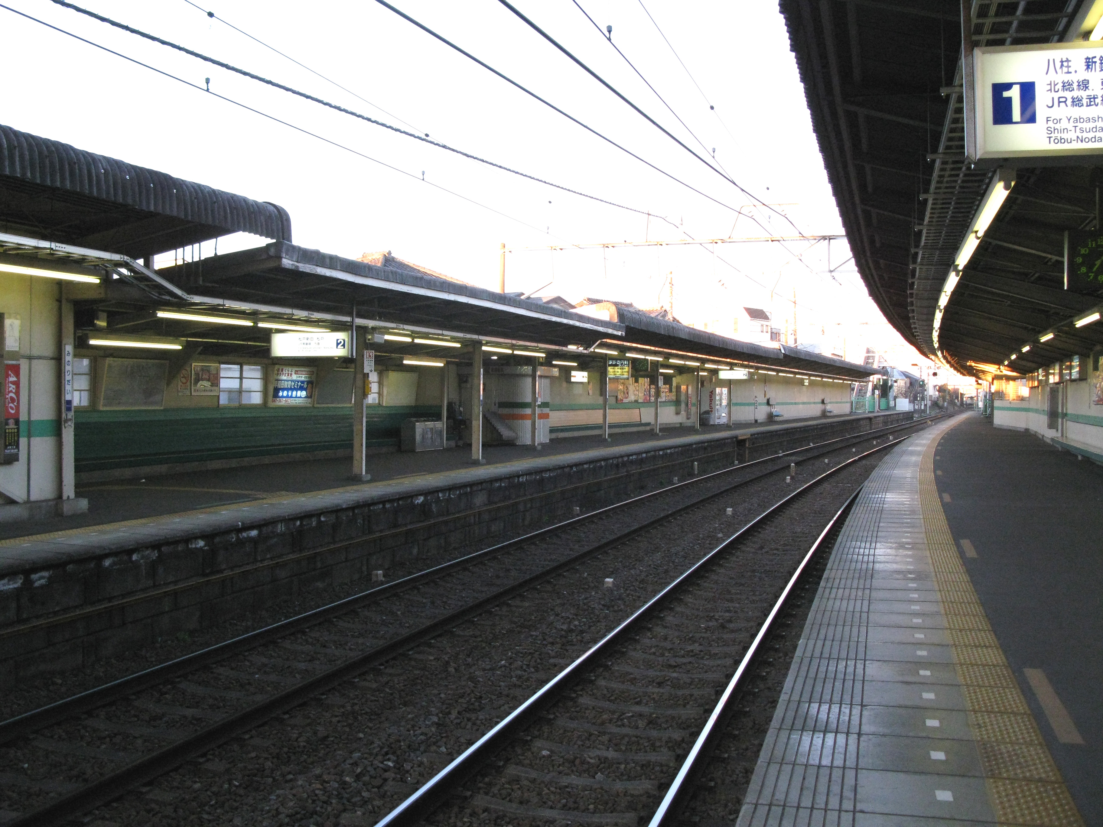 Minoridai Station platform (Shin-Keisei Electric Railway Shin-Keisei Line)